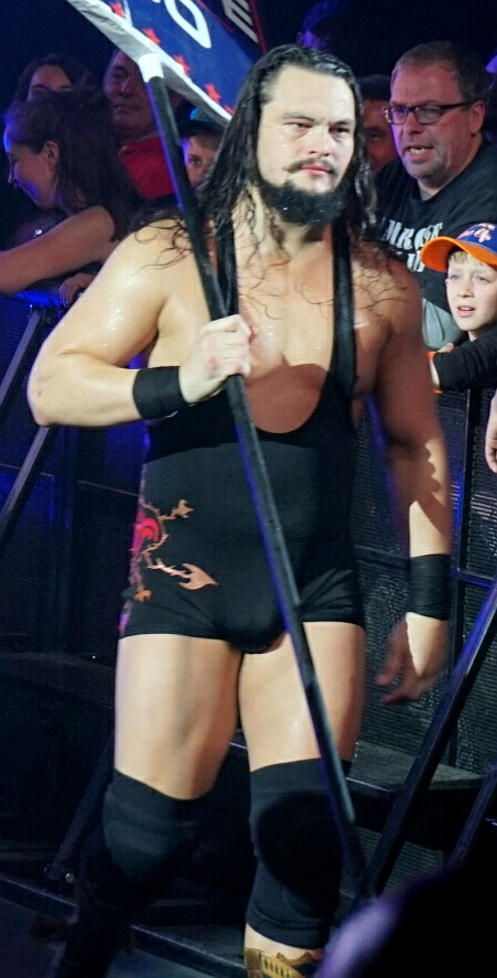 Apollo Crews, Kalisto, Goldust & R-Truth defeat Bo Dallas, Curt Hawkins, Curtis Axel, Titus O'Neil (in Eight Man Tag Team Match) ( Le vendredi 12 mai, la WWE Live Tour fera escale au Country Hall a Liege pour le spectacle de catch de l'annee! Au programme: des duels impitoyables et des rencontres captivantes entre les meilleures equipes et les plus grands rivaux. )